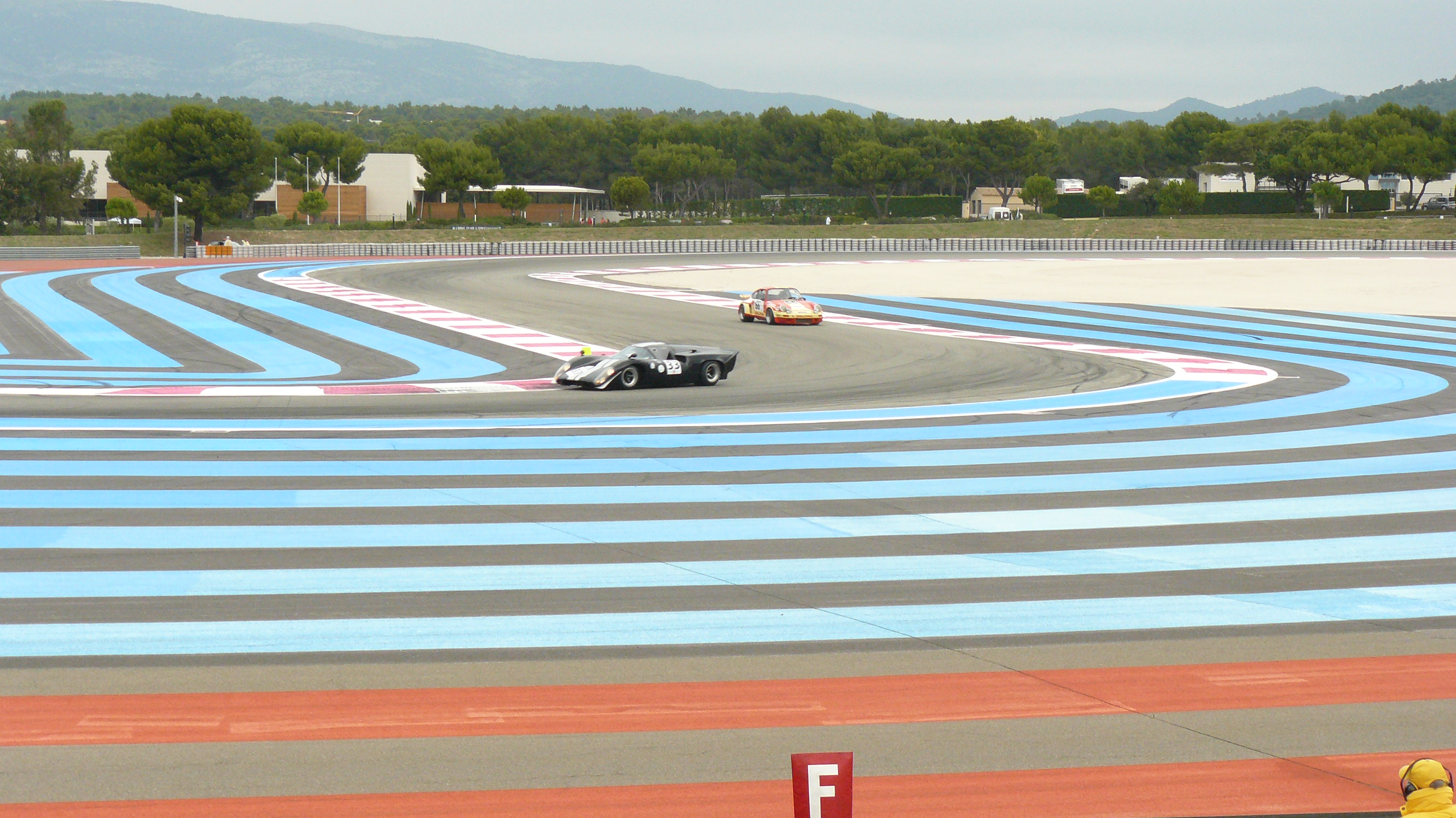 turn of "pont" and "tour", track of Paul Ricard